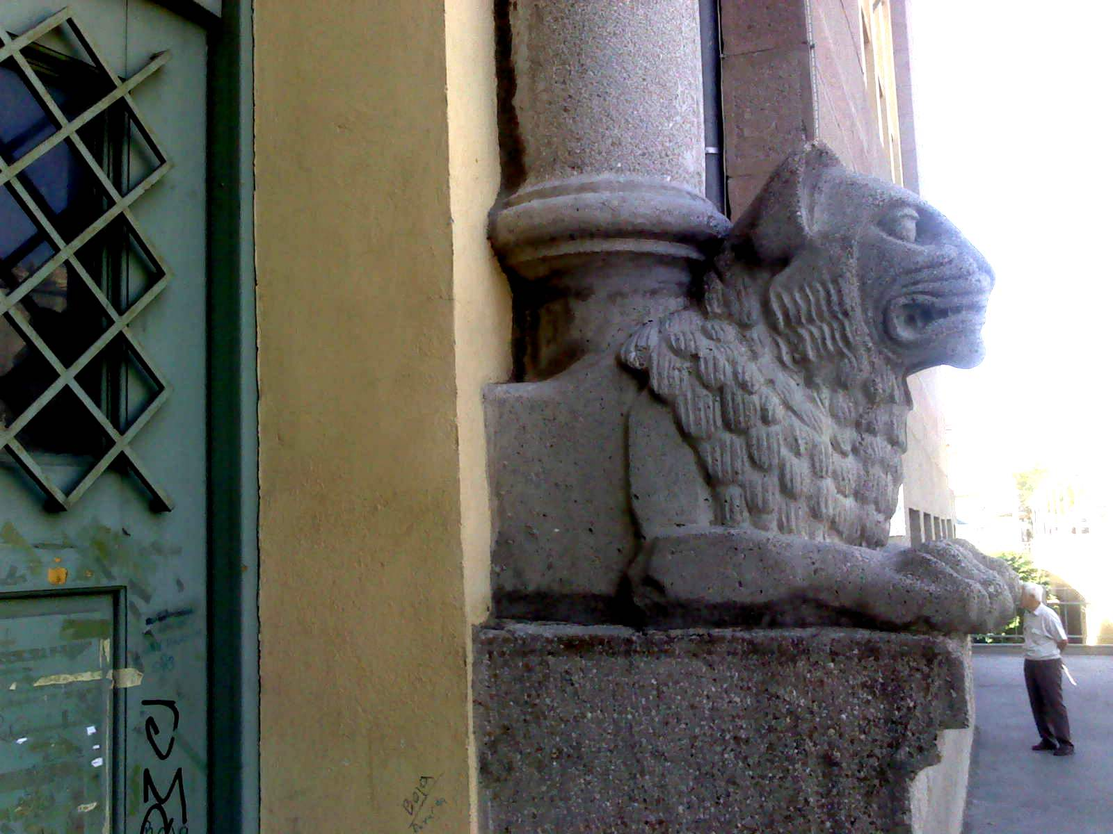 Mostar Youth Theatre, entrance with a lion decoration.